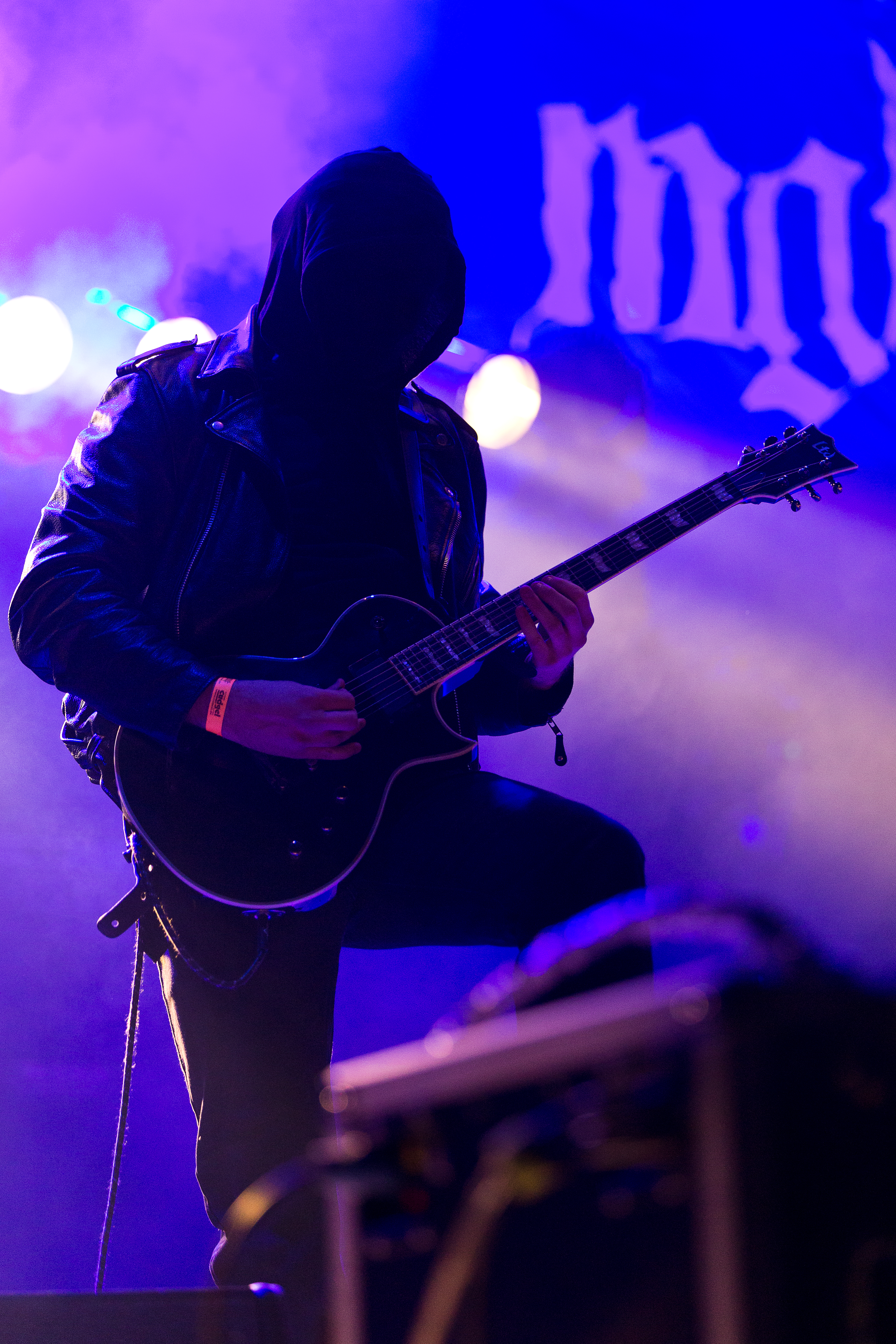 The Polish black metal band Mgła at the Party.San Metal Open Air 2016 in Obermehler-Schlotheim/Germany